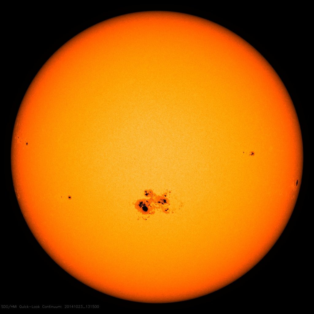 On Oct. 18, 2014, a sunspot rotated over the left side of the sun, and soon grew to be the largest active region seen in the current solar cycle, which began in 2008. Currently, the sunspot is almost 80,000 miles across -- ten Earth's could be laid across its diameter. Sunspots point to relatively cooler areas on the sun with intense and complex magnetic fields poking out through the sun's surface. Such areas can be the source of solar eruptions such as flares or coronal mass ejections. So far, this active region – labeled AR 12192 -- has produced several significant solar flares: an X-class flare on Oct. 19, an M-class flare on Oct. 21, and an X-class flare on Oct. 22, 2014. The largest sunspot on record occurred in 1947 and was almost three times as large as the current one. Active regions are more common at the moment as we are in what's called solar maximum, which is the peak of the sun's activity, occurring approximately every 11 years. Credit: NASA/SDO NASA image use policy. NASA Goddard Space Flight Center enables NASA’s mission through four scientific endeavors: Earth Science, Heliophysics, Solar System Exploration, and Astrophysics. Goddard plays a leading role in NASA’s accomplishments by contributing compelling scientific knowledge to advance the Agency’s mission. Follow us on Twitter Like us on Facebook Find us on Instagram